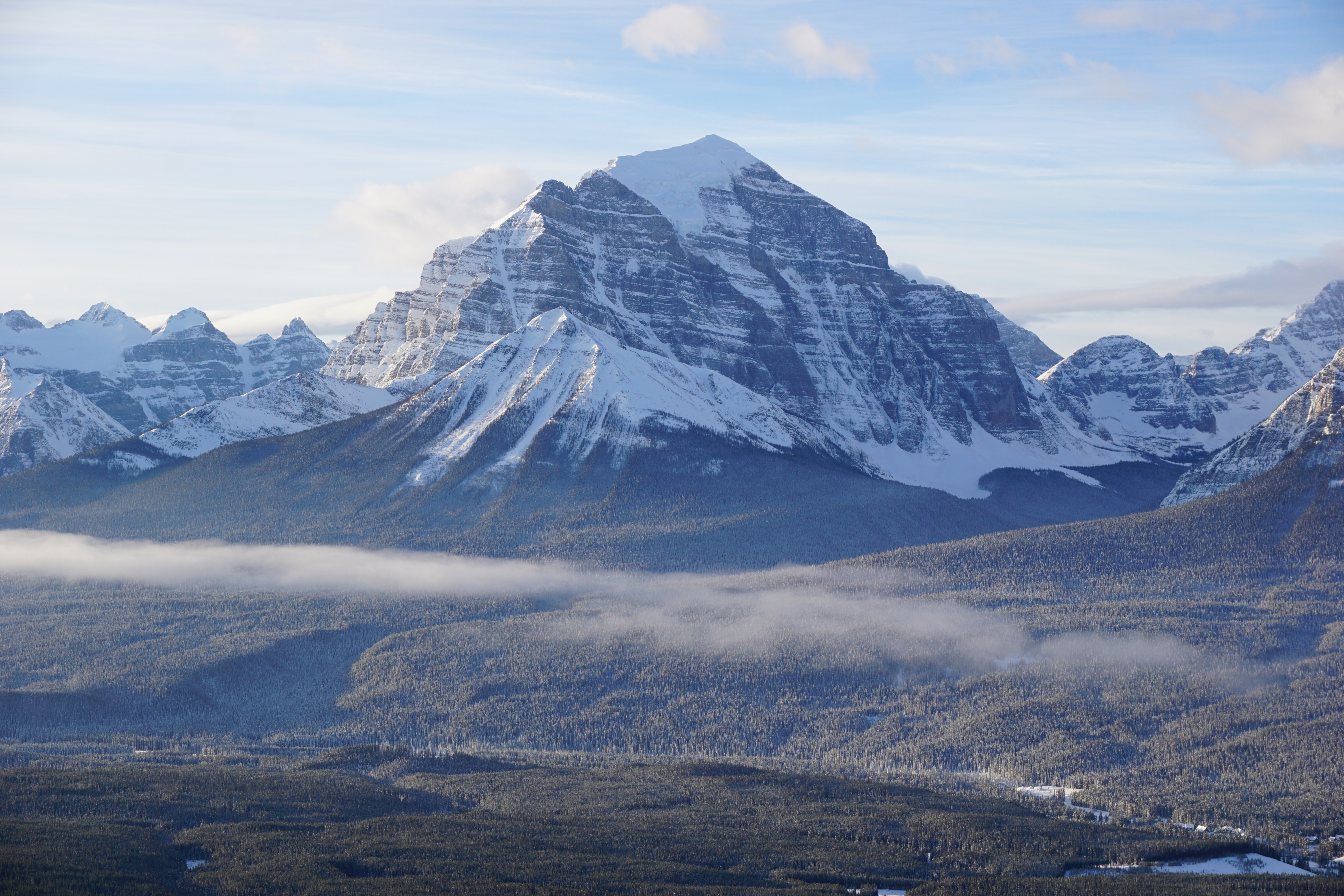 Banff National Park